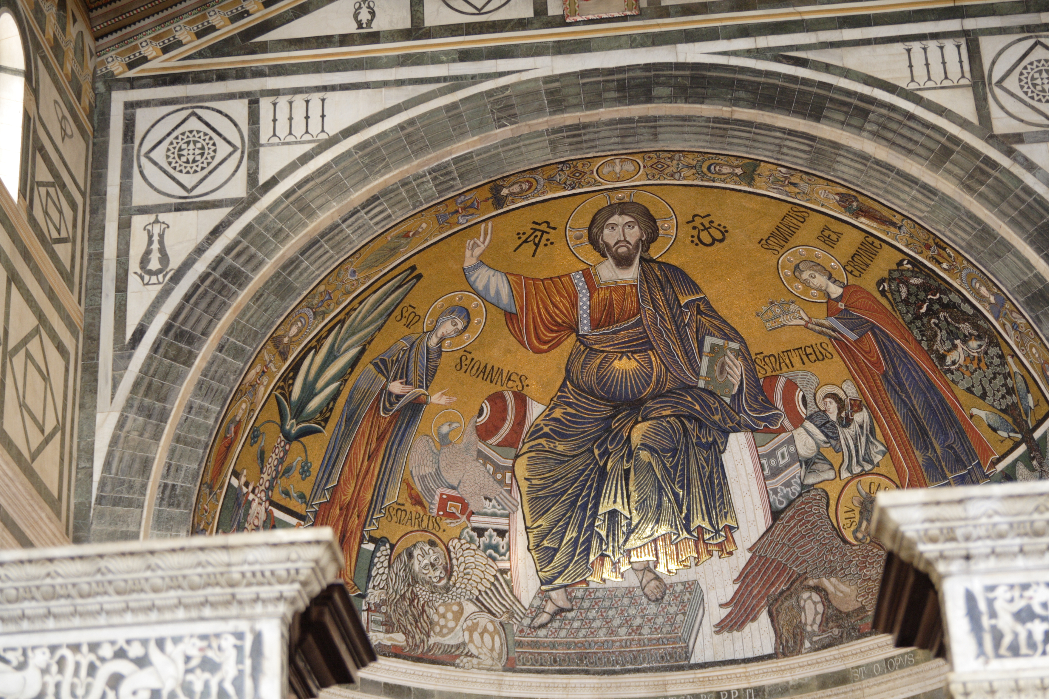 San Miniato al Monte (Florence) - Apsidal Mosaic